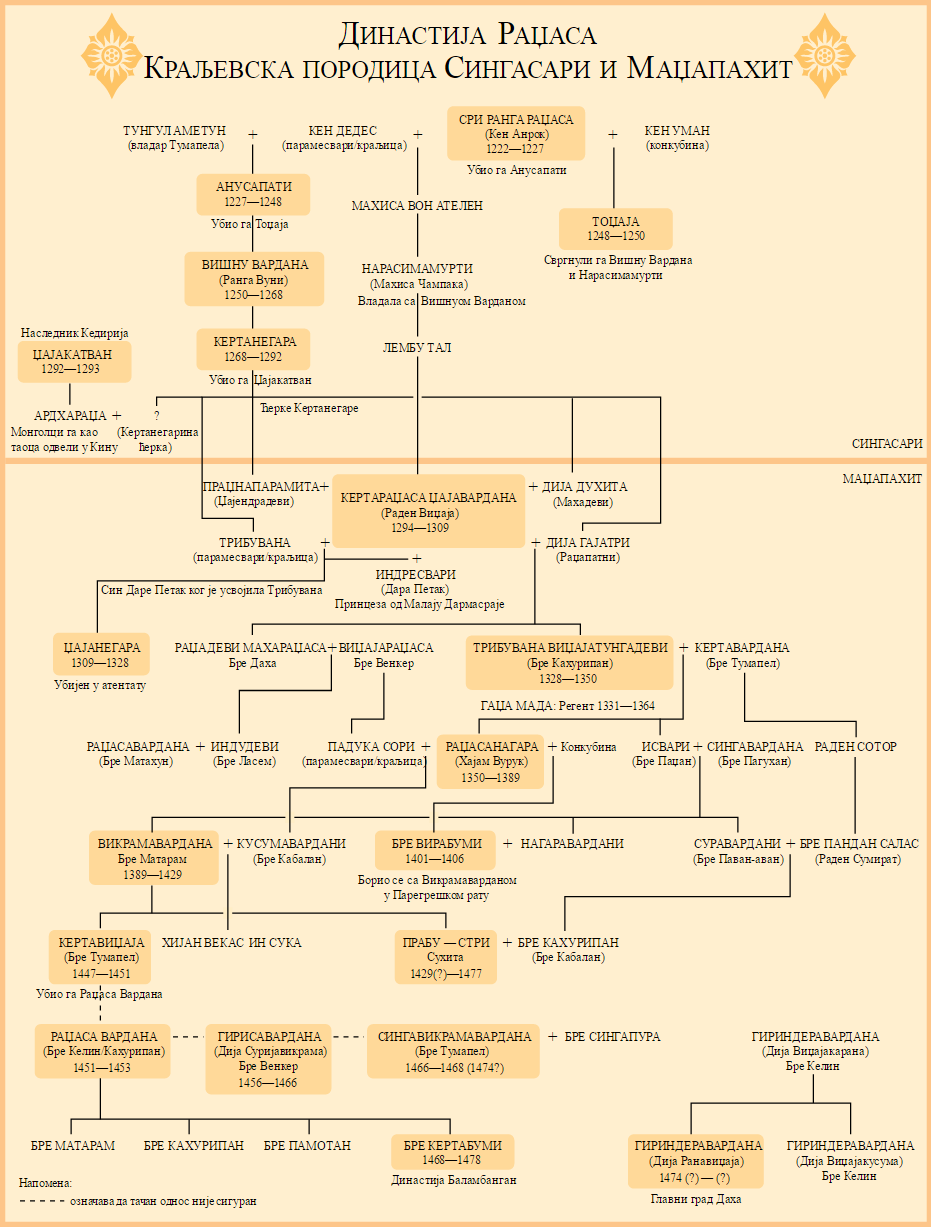 Genealogical diagram of Rajasa Dynasty, the royal family of Singhasari and Majapahit. [translated into Serbian as svg, then captured screen because fonts render improperly]